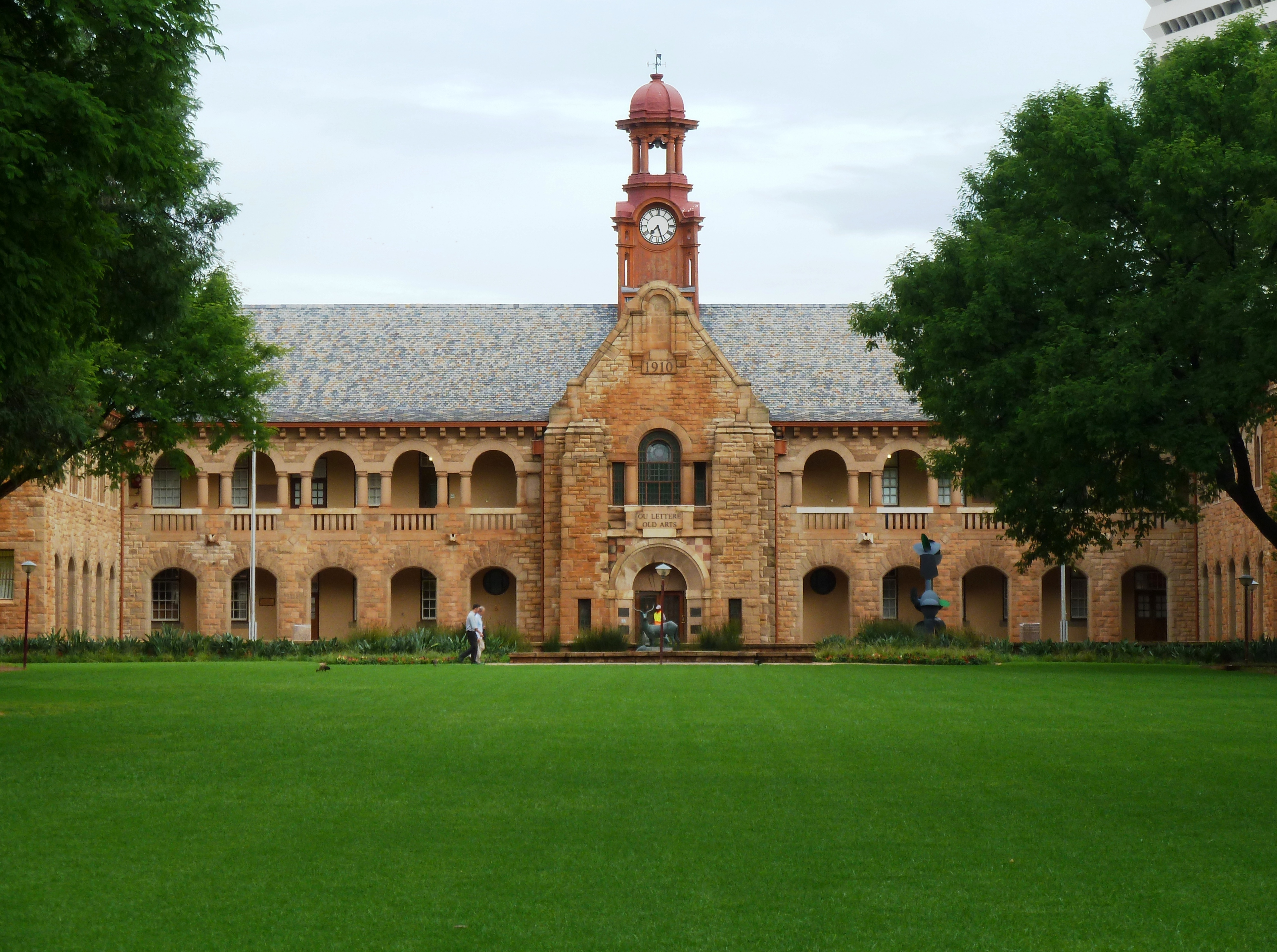 Old Arts building at the University of Pretoria